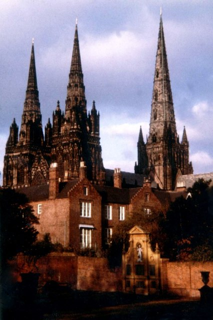 Lichfield Cathedral